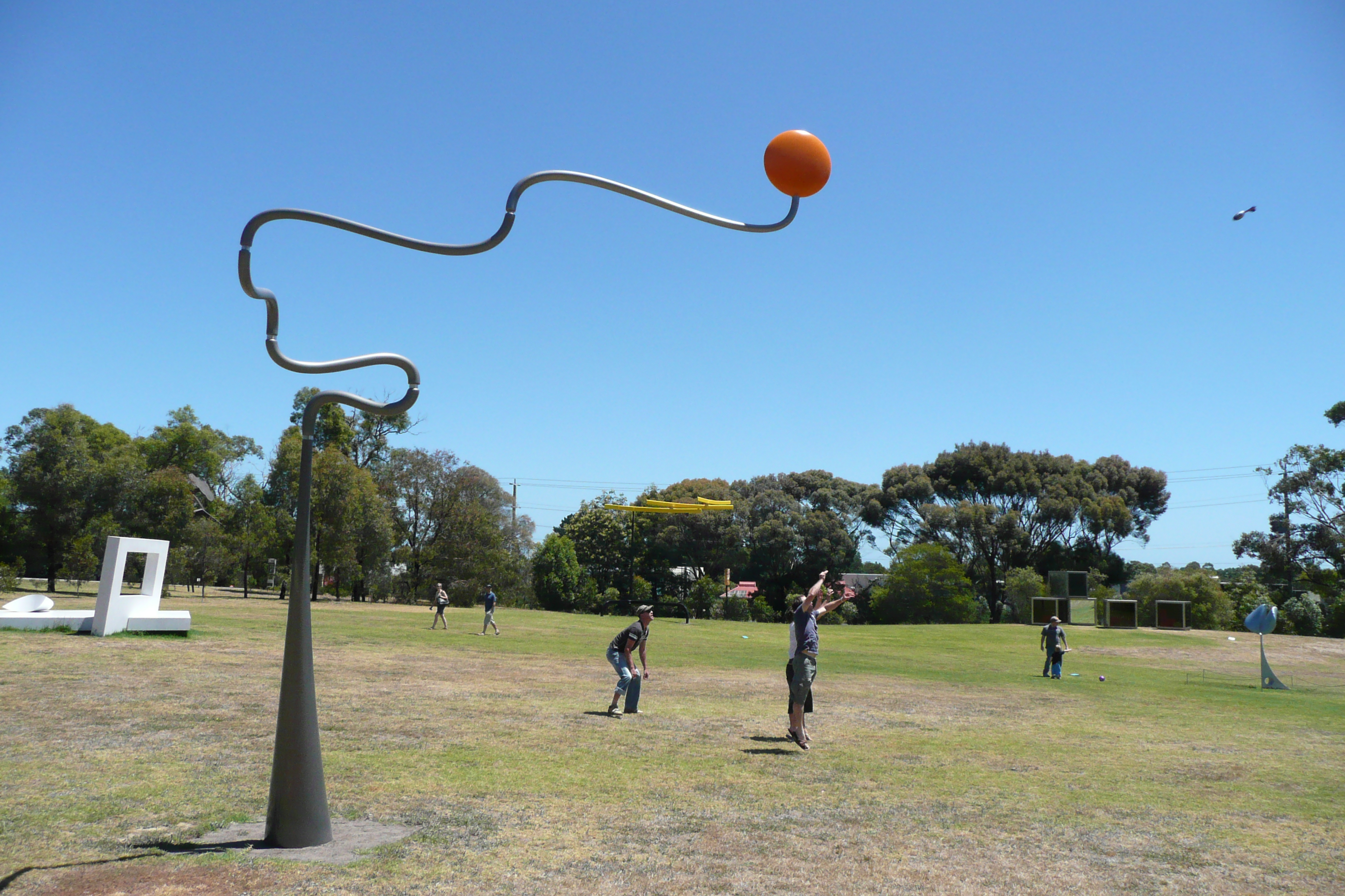 Phil Price kinetic sculpture, McClelland Gallery, Melbourne/Australia. Engineering assistance by a certain Lincoln Frost.